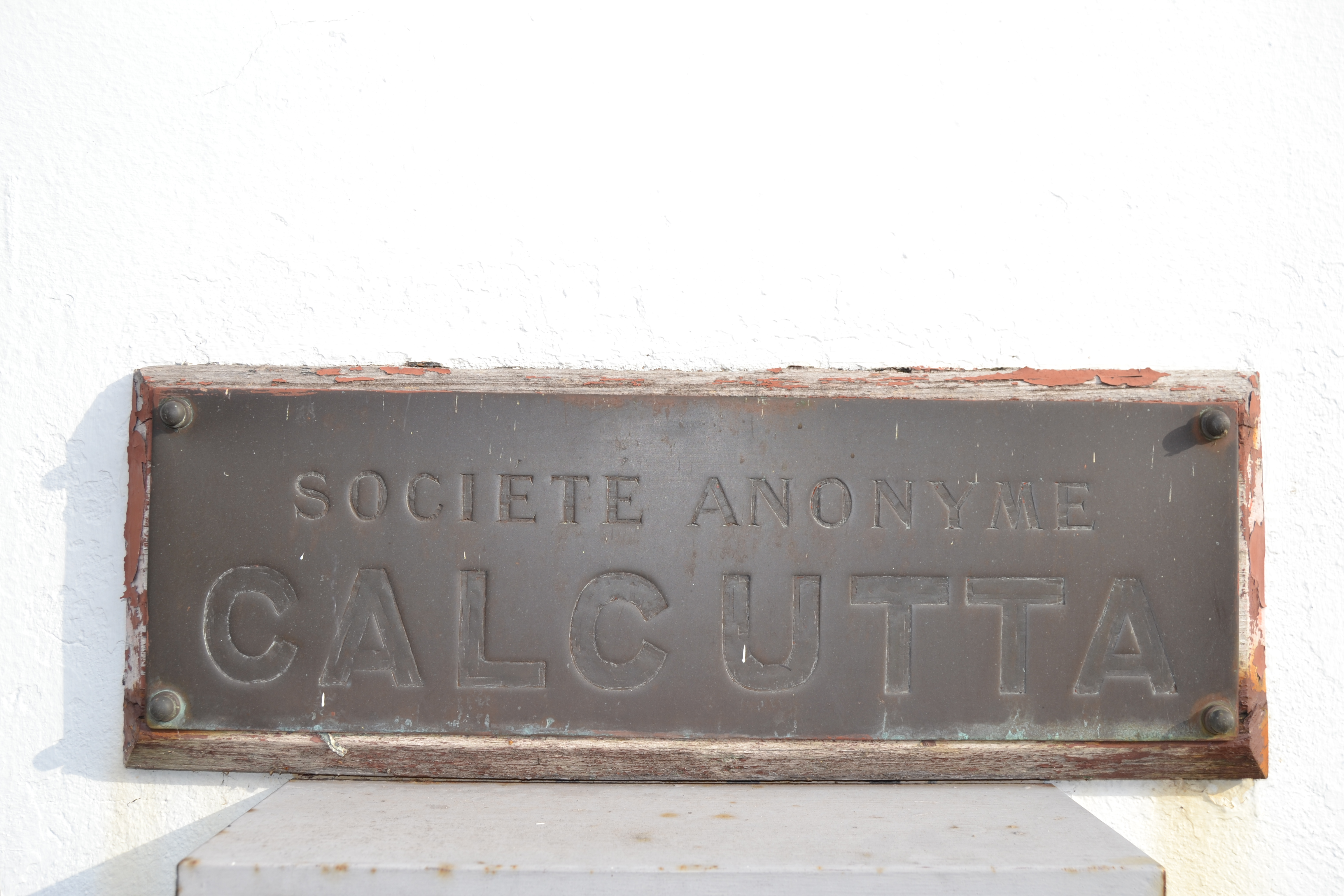 Bronze nameplate Calcutta Societe Anonyme Sleidinge